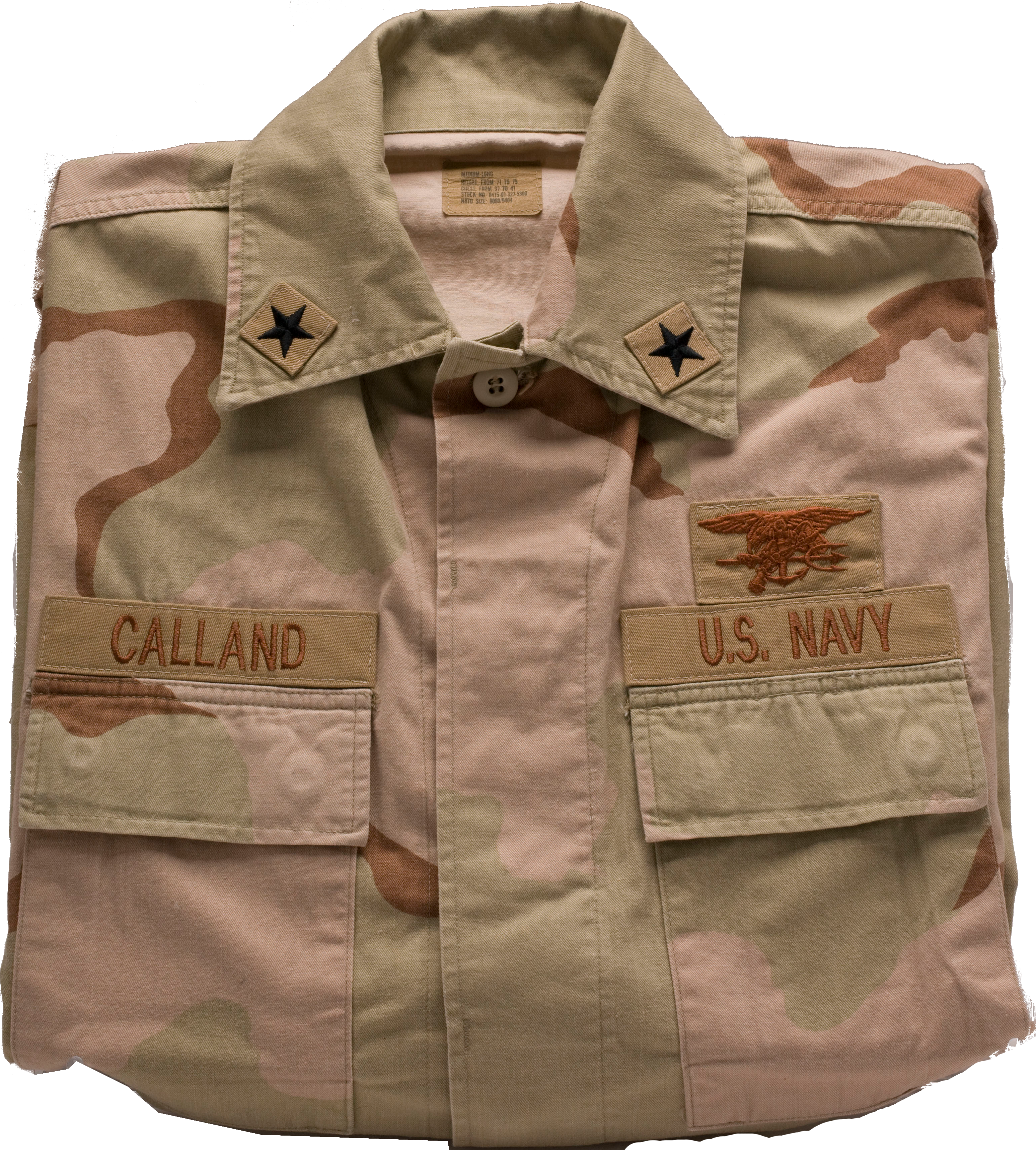 Admiral Calland’s Desert Combat Uniform blouse